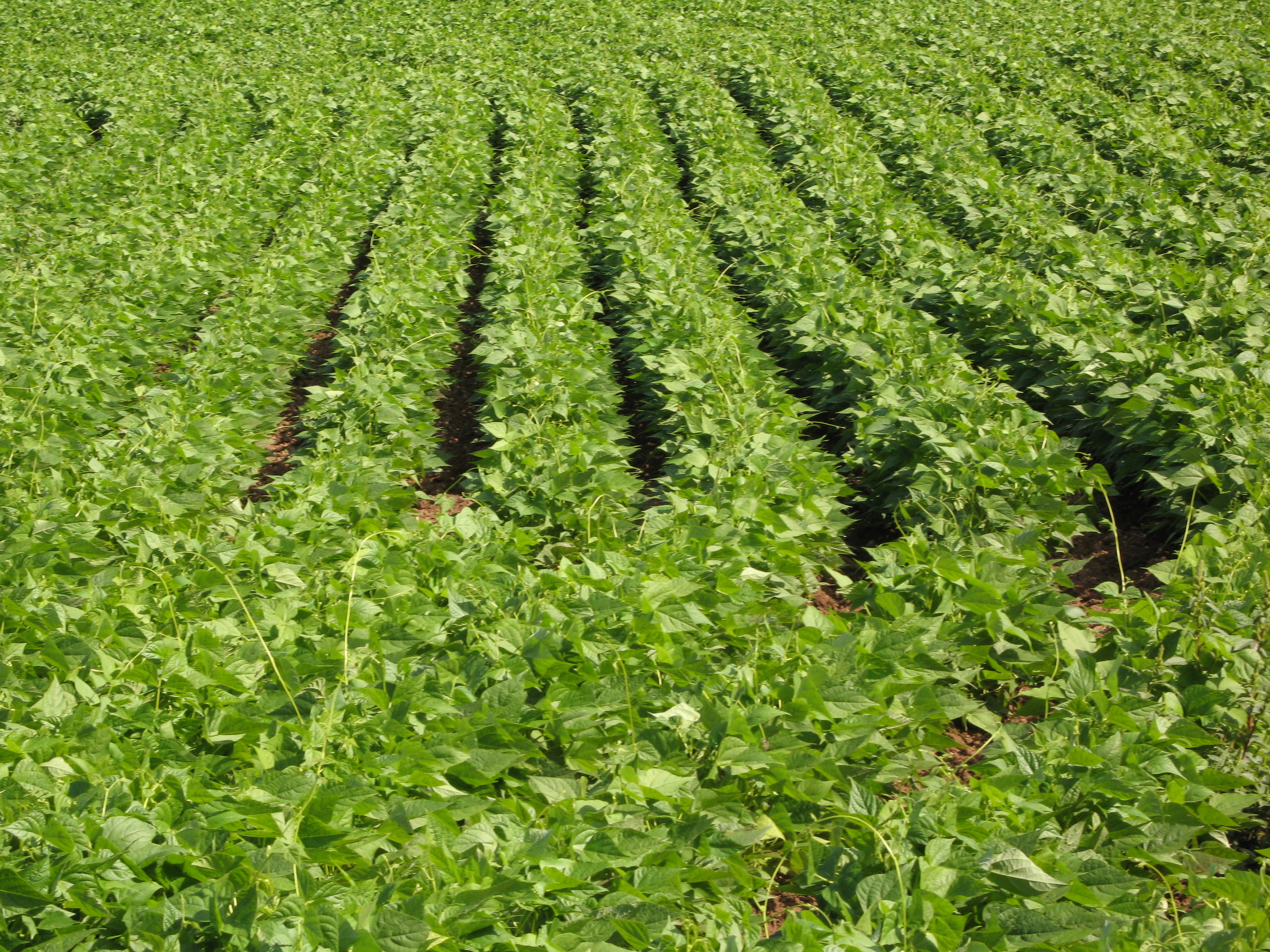 Beans plant field